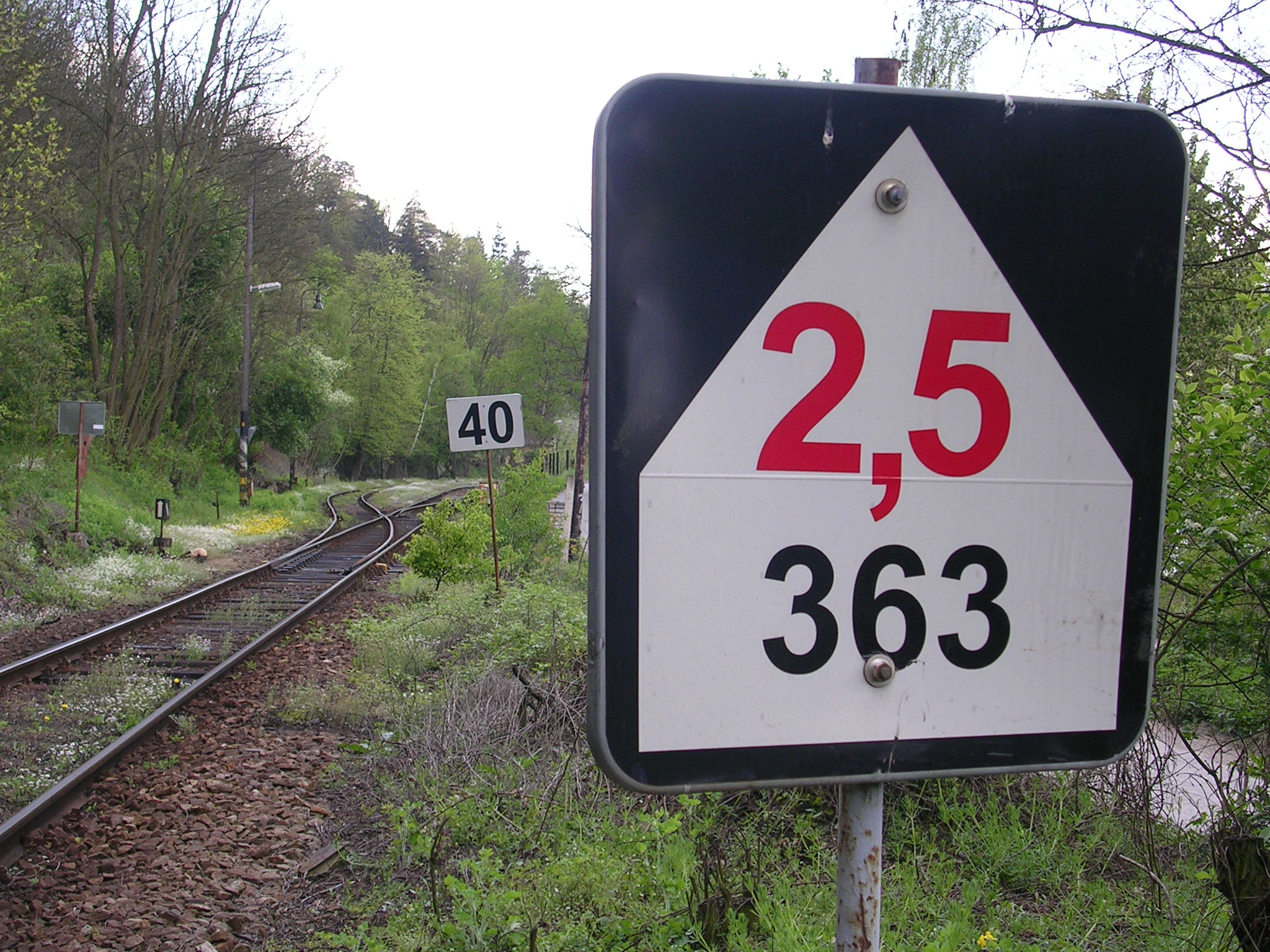 Railway gradient marker: 0.25% (1 in 400) rising for 363 m. Davle railway station, Czech Republic.